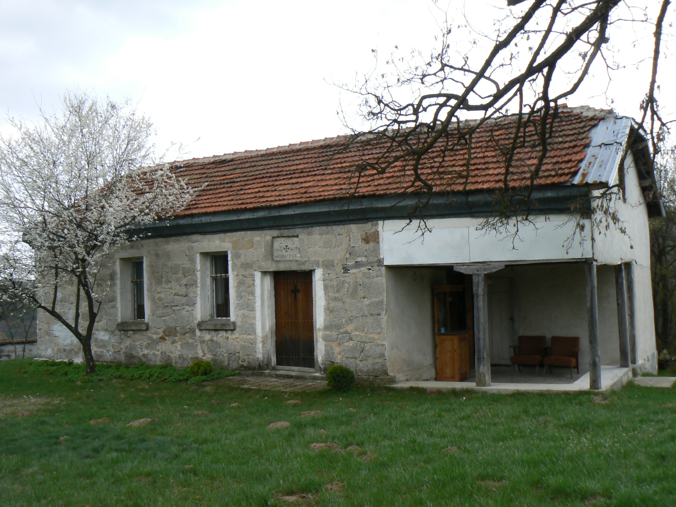 Ochusha Monastery, Bulgaria